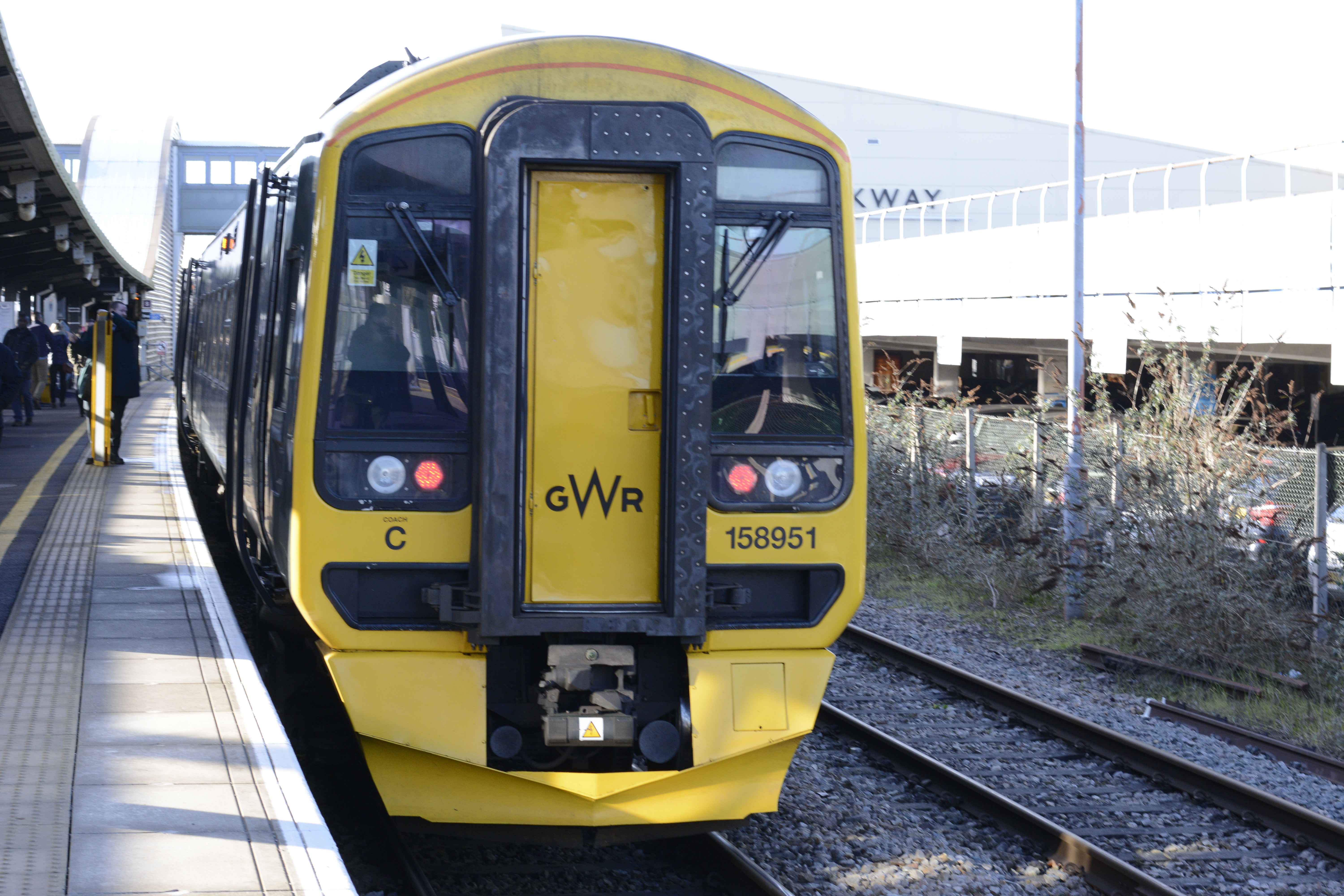 A Great Western Railway Class 158 awaiting it's next duties at Bristol Parkway.